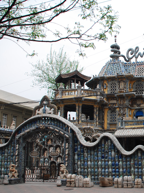 Posted via email from comer's posterous 天津瓷房子 Tianjin china house